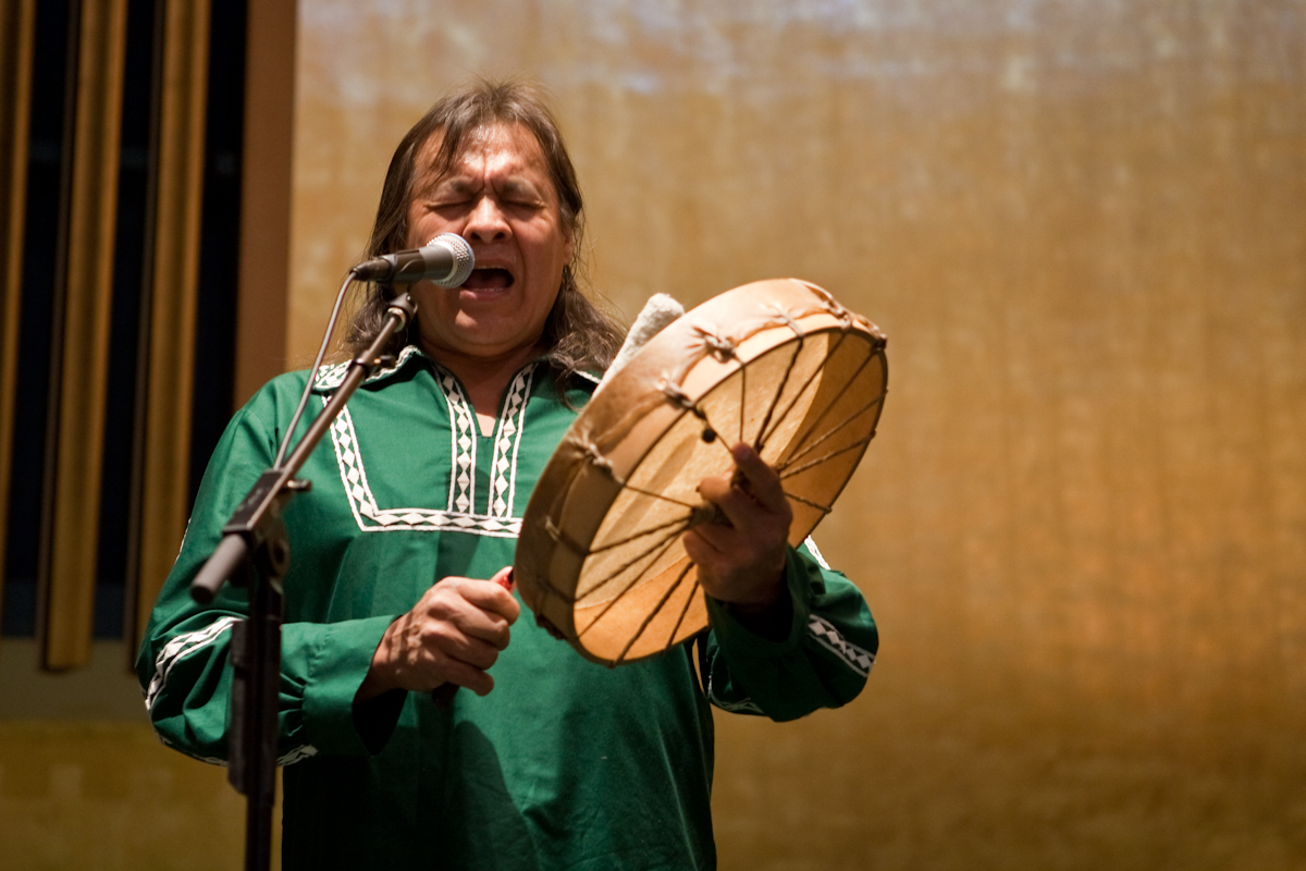 Indigenous hand drum playing and singing